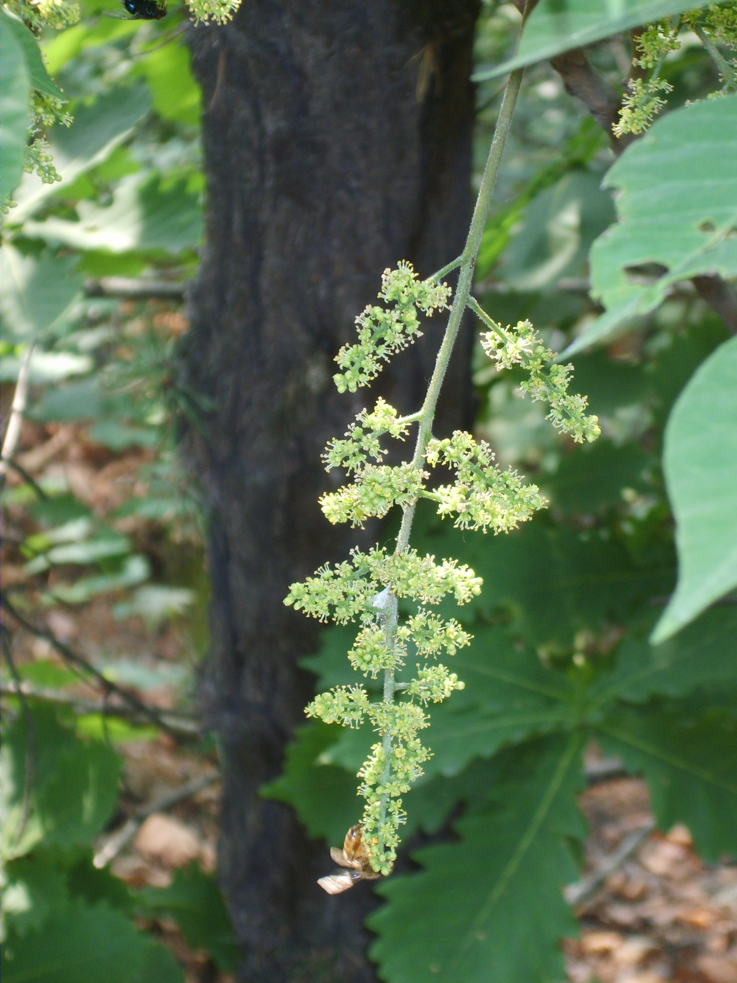 Rhus trichocarpa's flower in Bupyung, Korea